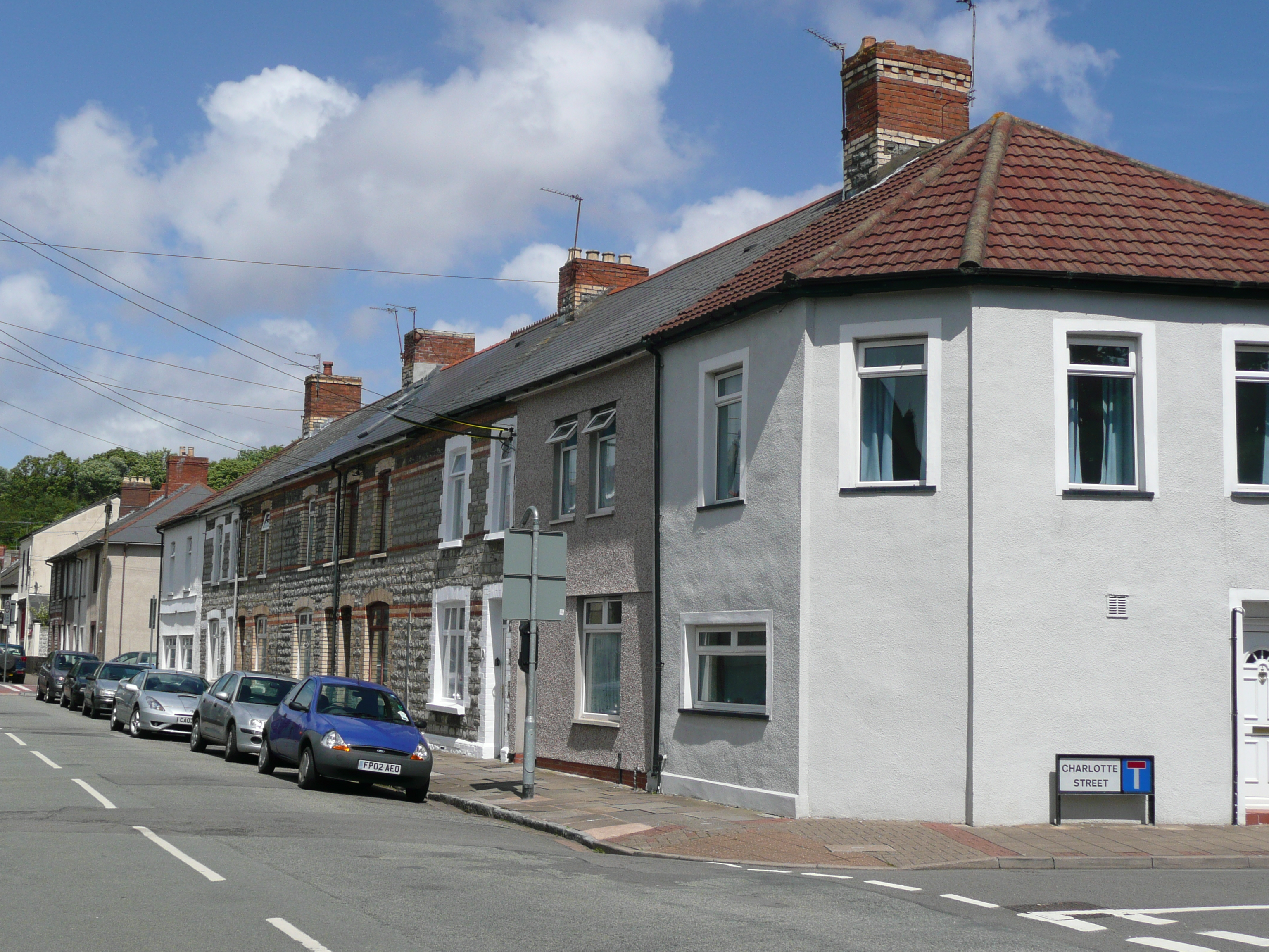 Street in Cogan near Penarth